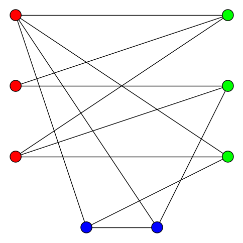 A graph that is 2-far from being bipartite. The set of blue vertices forms an odd cycle transversal; If you remove them, the resulting graph is bipartite. sparse6=":GkA_WCiMcZ", graph6="GDr``S"